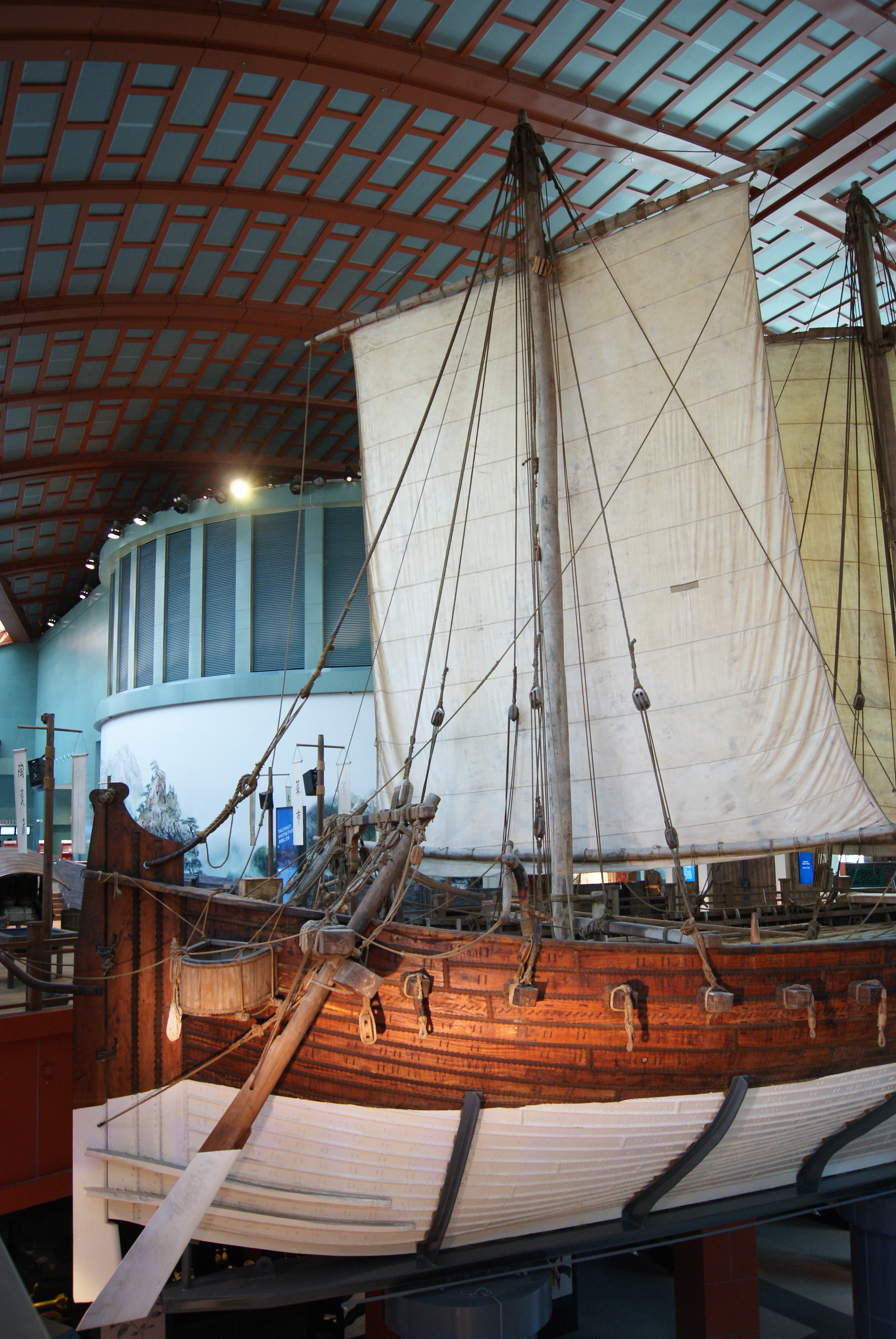 The Jewel of Muscat, a dhow built in Qantab, Muscat Governorate, Oman, between 2008 and 2010 as a joint project of the Governments of Oman and Singapore. It was modelled after the Belitung shipwreck, a 9th-century Arabian dhow. The Jewel of Muscat sailed from Oman on 16 February 2010, visiting Kochi, India; Galle, Sri Lanka; and George Town, Penang, and Port Klang in Malaysia. It arrived in Singapore on 3 July 2010, where it was handed over to the people of Singapore as a gift from Oman.